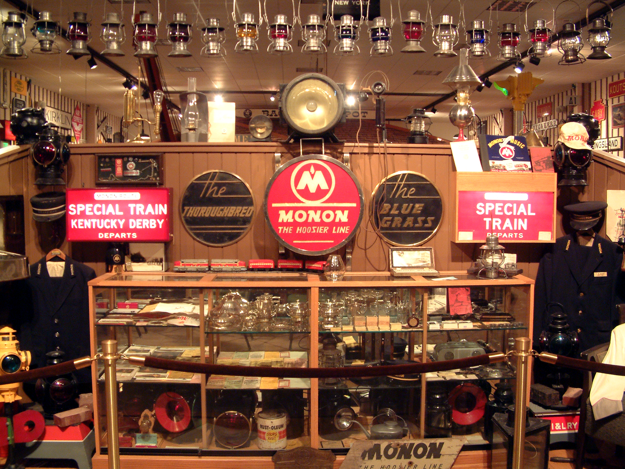 Railroad artifacts on display in the Monon Connection Museum near the town of Monon, Indiana. The museum in located along U.S. Route 421 approximately two miles north of town.